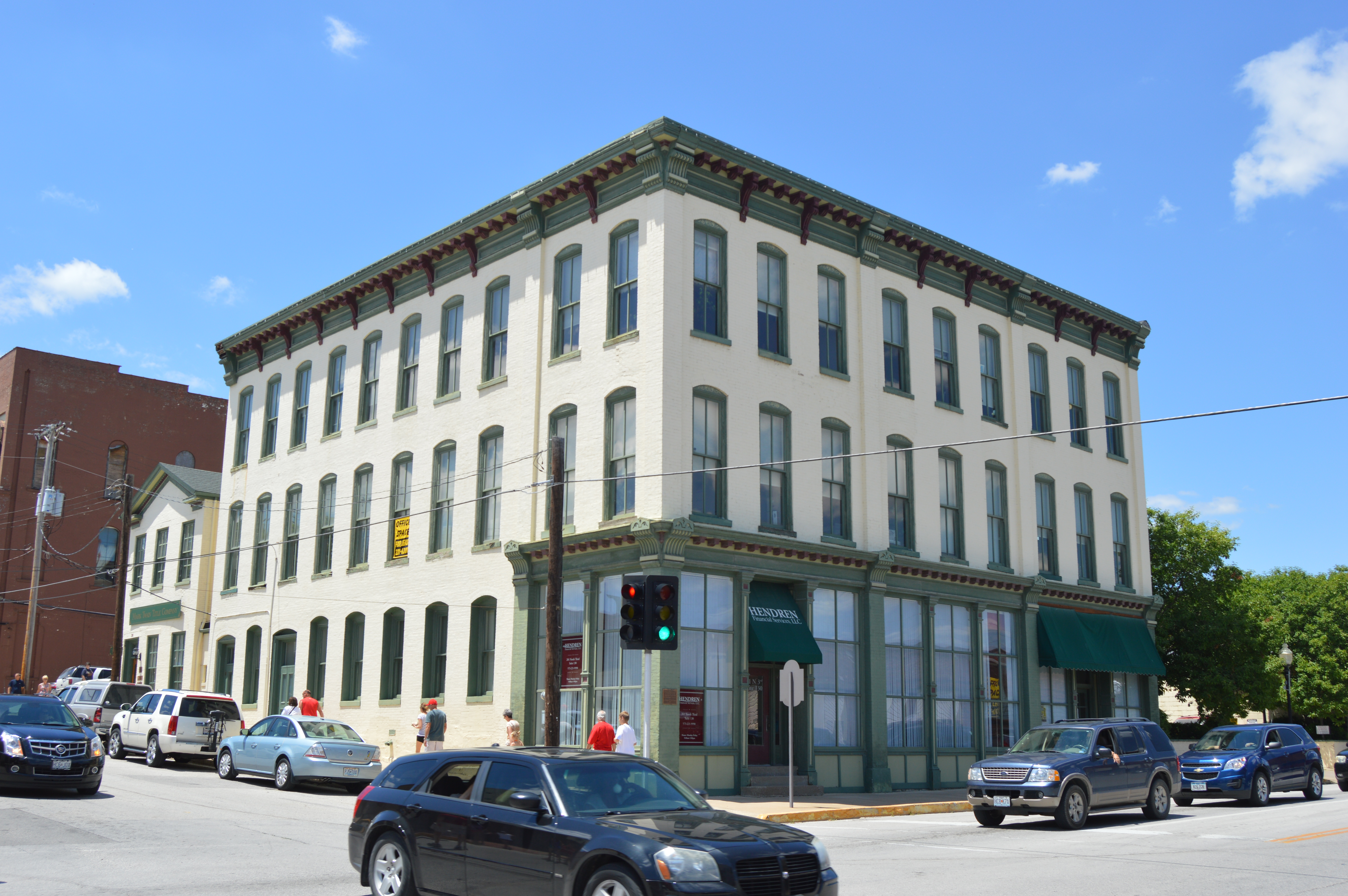 Front and southern side of the Standard Printing Company, located at 201 N. Third Street (Route 79) in Hannibal, Missouri, United States. Built in 1879, it is listed on the National Register of Historic Places.